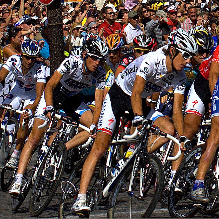 Andy and his brother in Paris